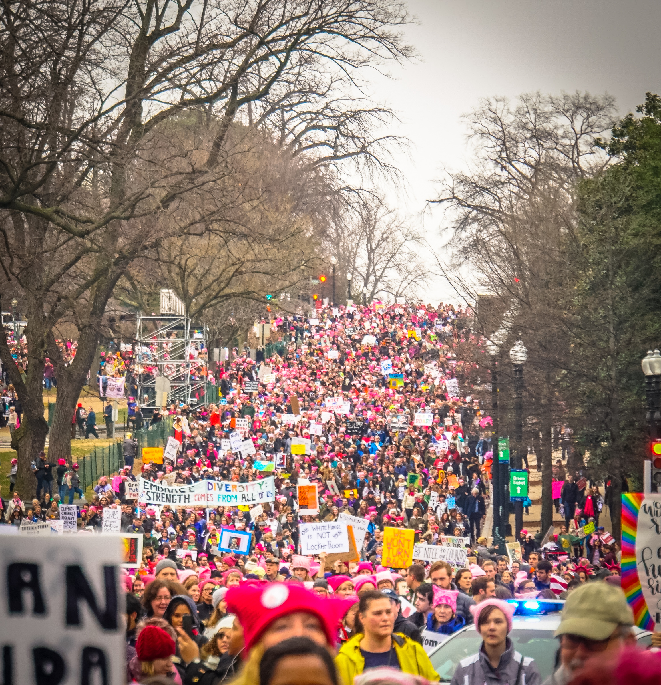 2017.01.21 Women's March Washington, DC USA 00095 Women's March on Washington